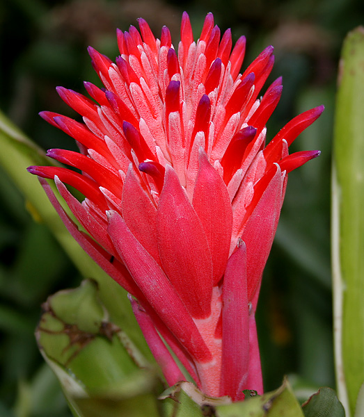 Foolproof Plant, Flaming Torch or Summer Torch Billbergia pyramidalis in Hyderabad, India.